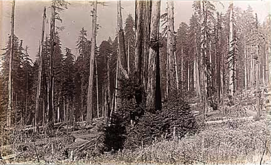 Example of logging in Humboldt County